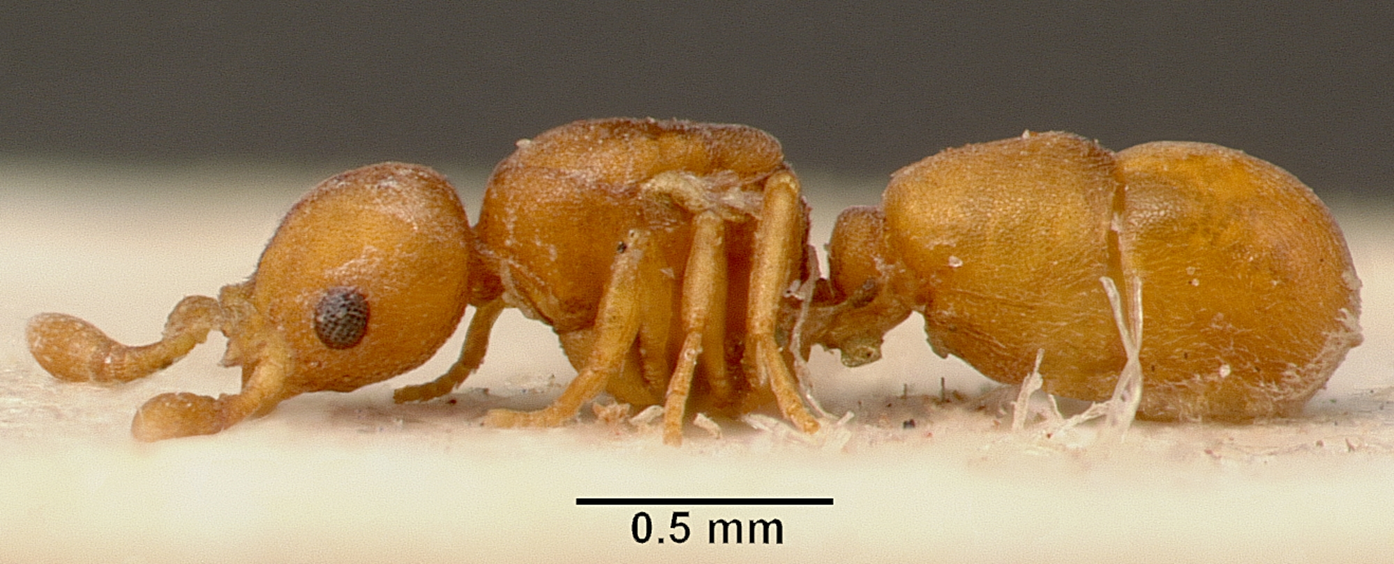 Profile view of ant Amblyopone besucheti specimen sam-ent-011508.